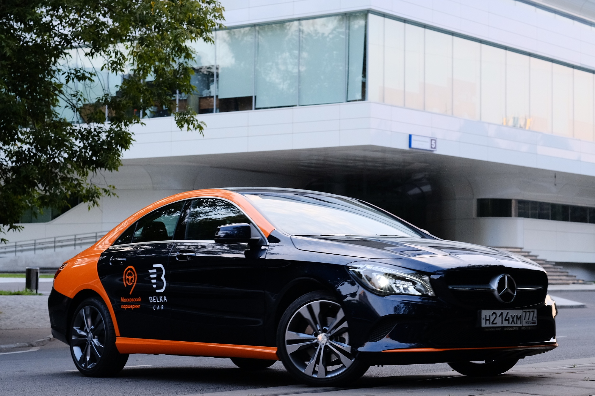 BelkaBlack